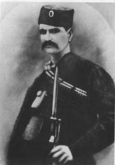 Serbian Voivode Dimitrije Dimitrijević - "Pop Mita-Komita" (d. 1917)